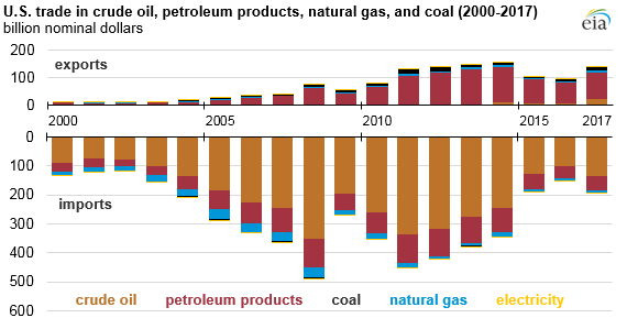 During the past decade, the U.S. trade gap for energy products has narrowed. From 2003 to 2007, the value of energy imports was about 10 times greater than the value of exports. By 2017, imports were only about 1.5 times greater than exports. October 16, 2018